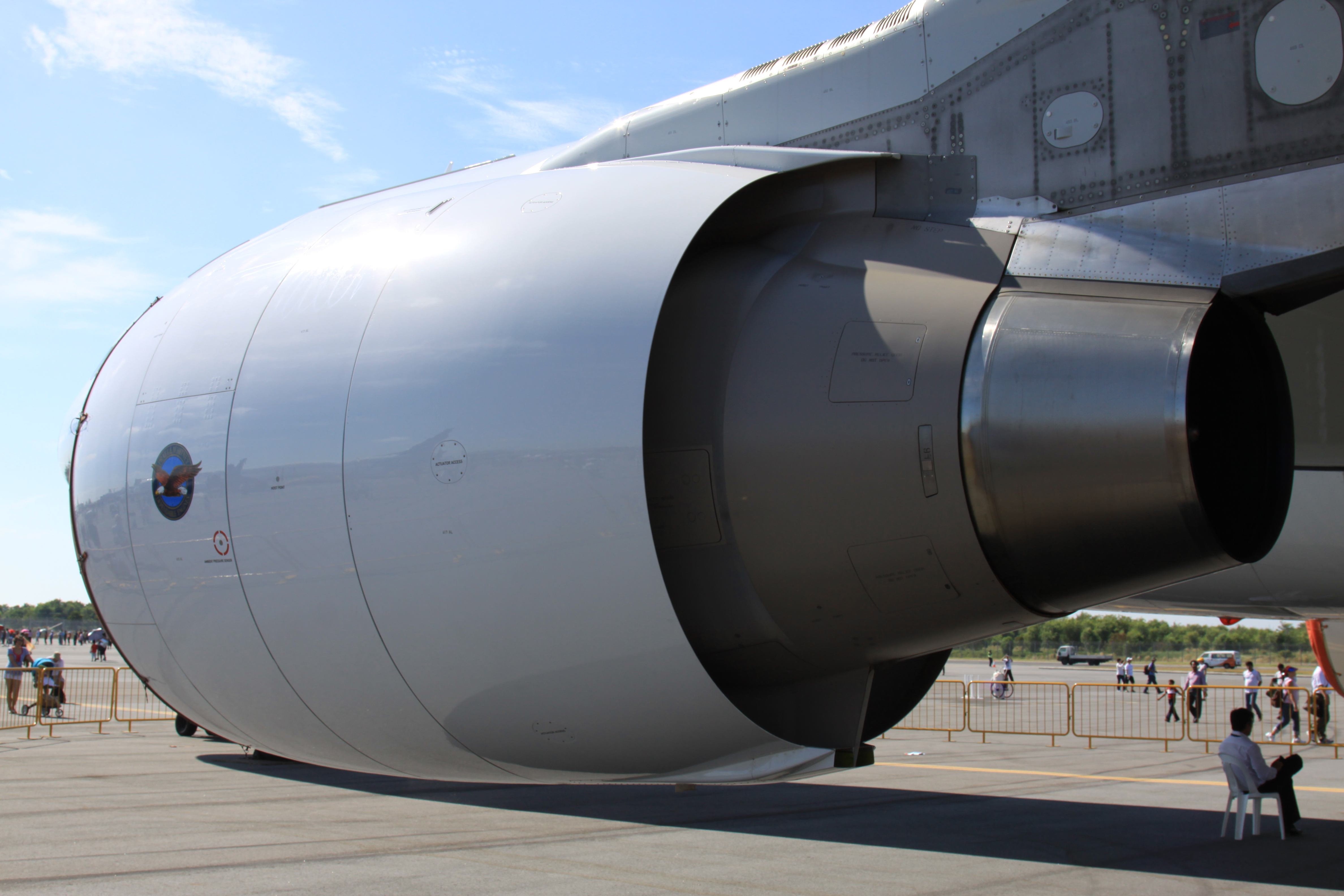 Singapore Airshow 2010